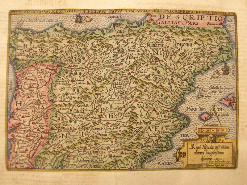 Eastern Asia, in a miniature atlas map by Matthias Quad, from 'Geographisch Handtbuch' (Cologne, Johann Bussemacher, 1600), with modern hand coloring: *the whole map*; *northwest* (shown above); *northeast*; *southwest*; *southeast* "Asia," from the same atlas: *the whole map*; *northwest*; *northeast*; *southwest*; *southeast* Persia, from the same atlas: *the whole map*; *northwest*; *northeast*; *southwest*; *southeast* The world, from the same atlas: *the whole map*; *northwest*; *northeast*; *southwest*; *southeast*; also: Africa*: *northwest*; *northeast*; *southwest*; *southeast* France*: *northwest*; *northeast*; *southwest*; *southeast* Spain and Portugal*: *northwest*; *northeast*; *southwest*; *southeast* North America*: *northwest*; *northeast*; *southwest*; *southeast* South America*: *northwest*; *northeast*; *southwest*; *southeast*